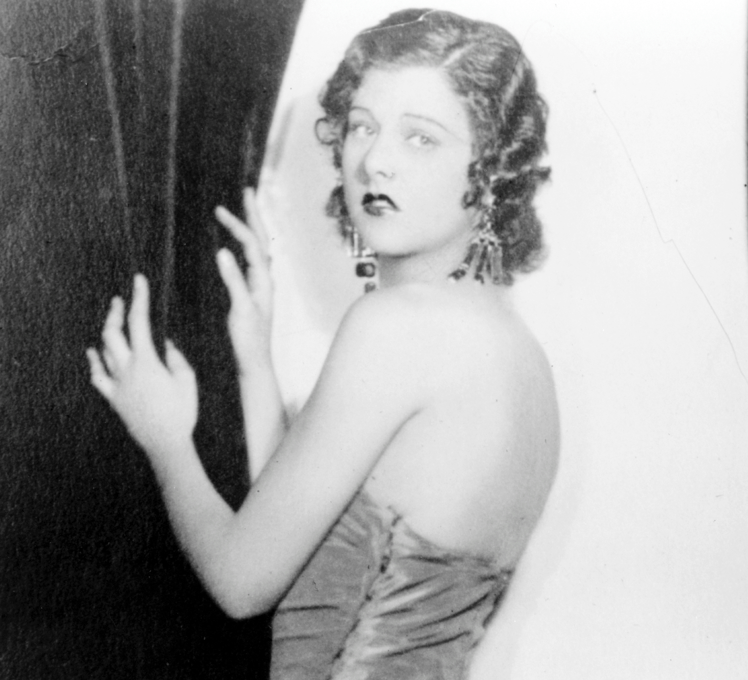 Actress Libby Holman